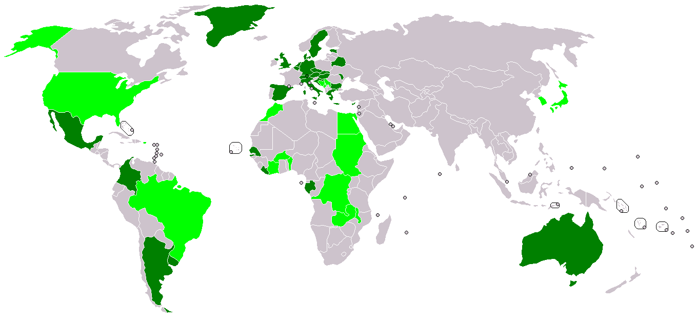 ratified - dark green; signed only - light green